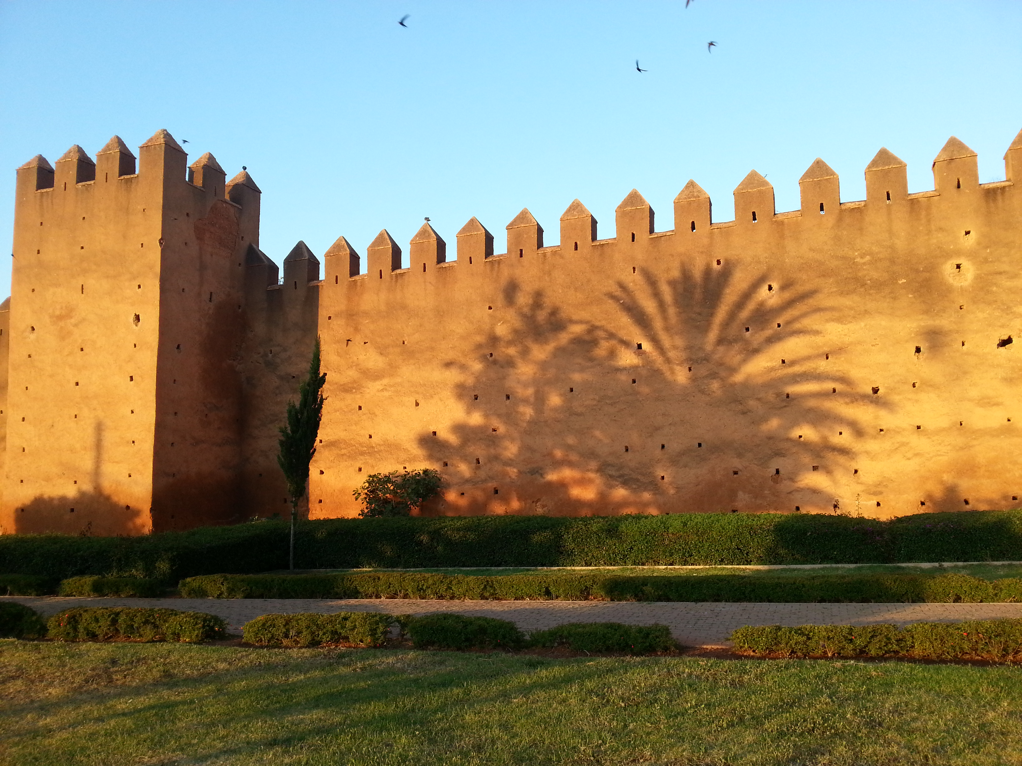 Bab rwah